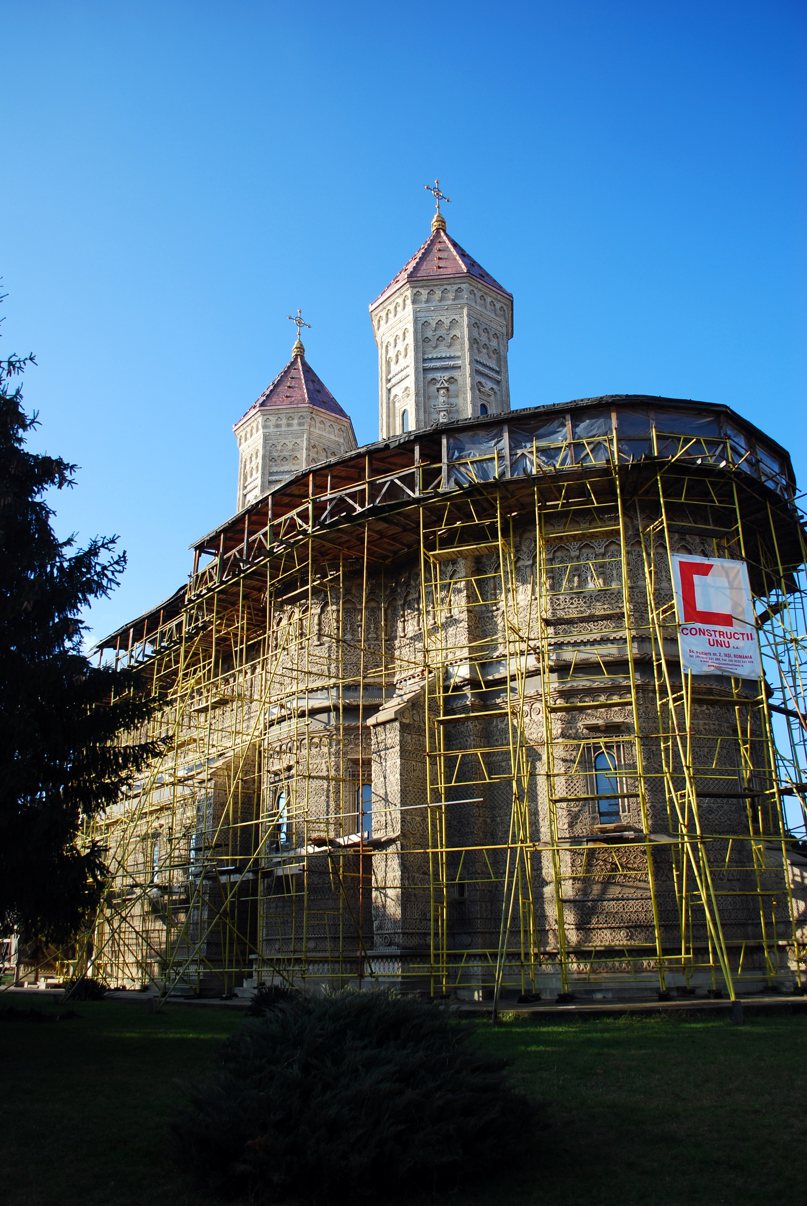 The Trei Ierarhi Church in Iaşi, Romania undergoing rennovation in December 2008